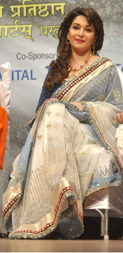 Madhuri at mangeshkar awards